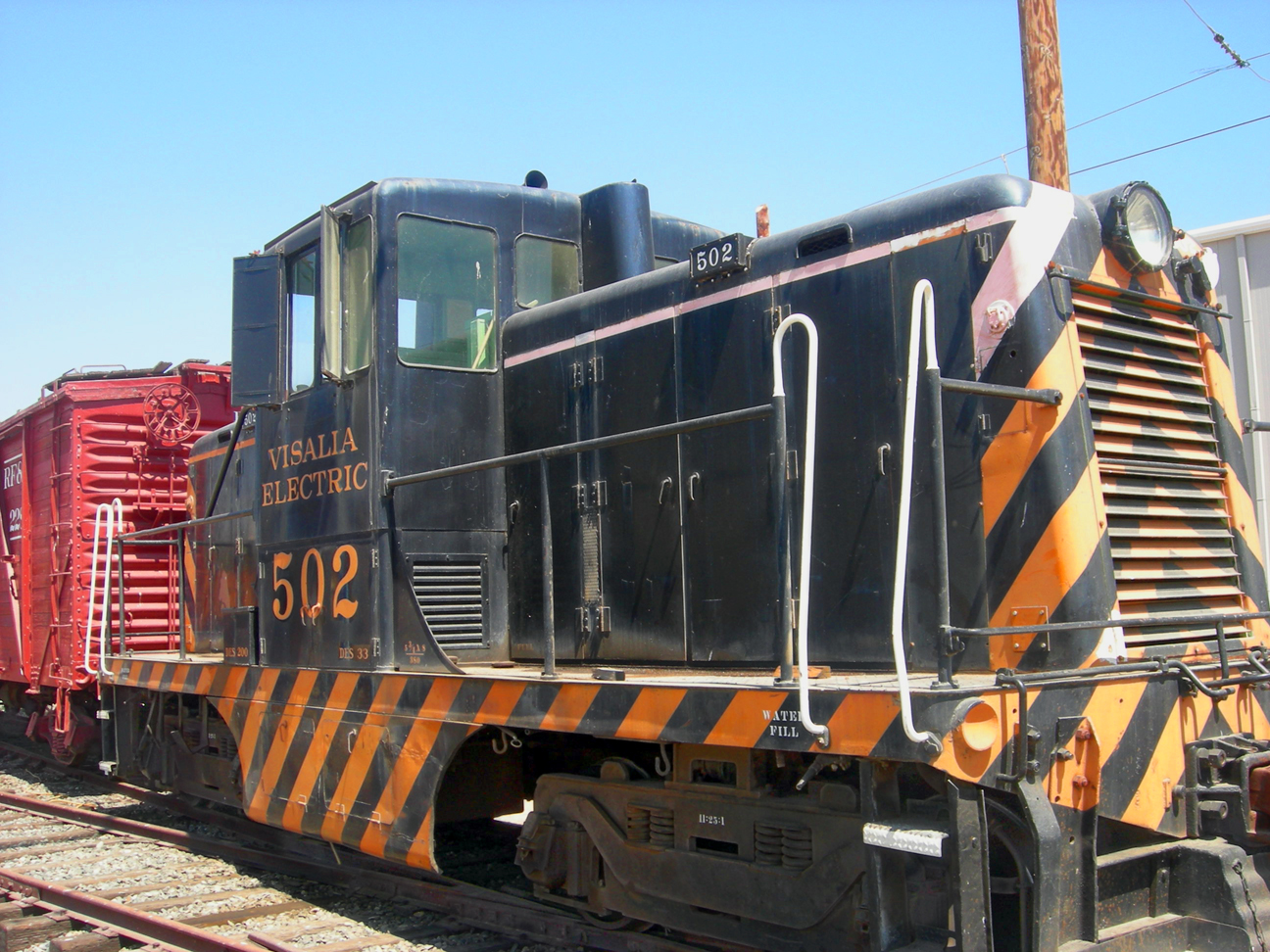 Visalia Electric Railway #502 GE 44-Ton diesel electric yard switcher.